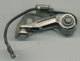 Breaker points, inside the distributor of an internal combustion engine. Scan, upload by MH 18:59, 2004 Aug 22 (UTC)